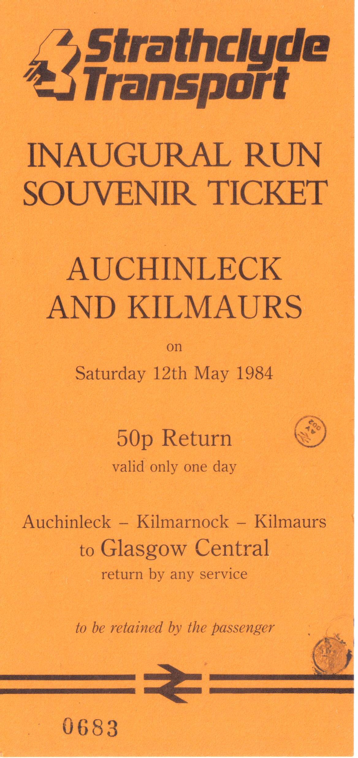 The inaugural run souvenir ticket - new stations at Kilamurs & Auchinleck. Glasgow - Kilmarnock - Dumfries - Carlisle railway line.